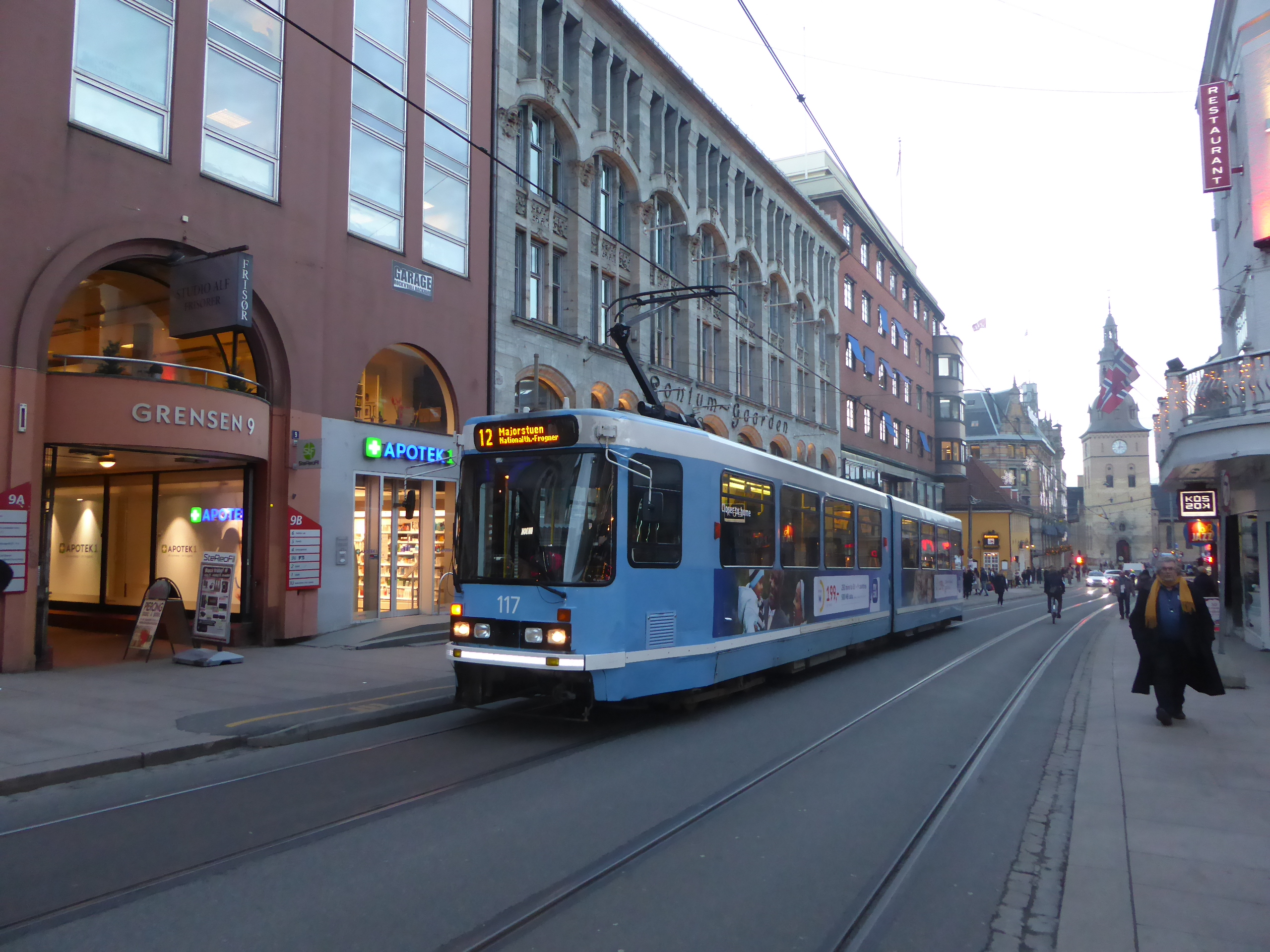 Tram line 12 at a temporary tram stop on Grensen in Oslo. In the background at the right Oslo Domkirke can be seen.